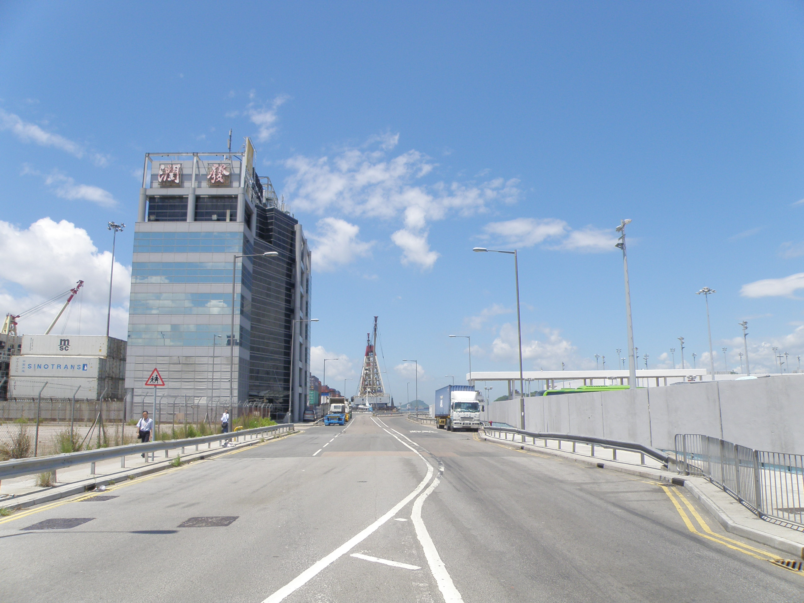 Yen Chow Street West in Nam Cheong, Hong Kong.